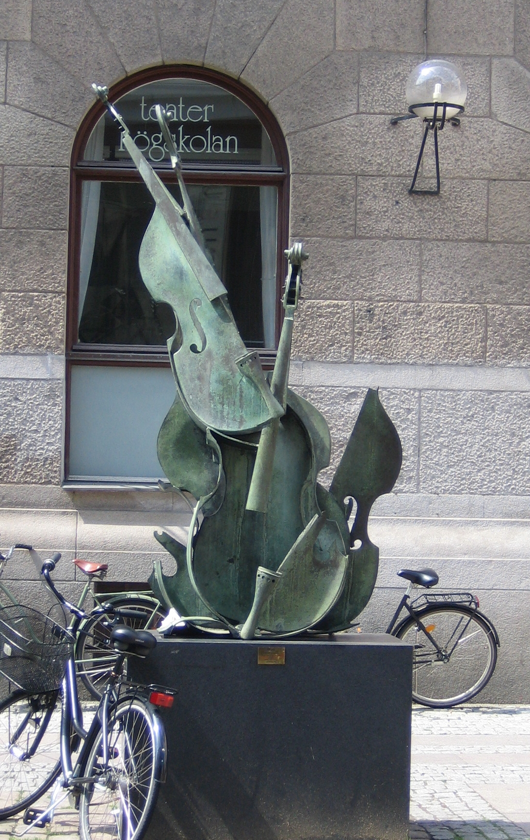 Sculpture outside Teaterhögskolan when it was located at Stora Nygatan, Malmö